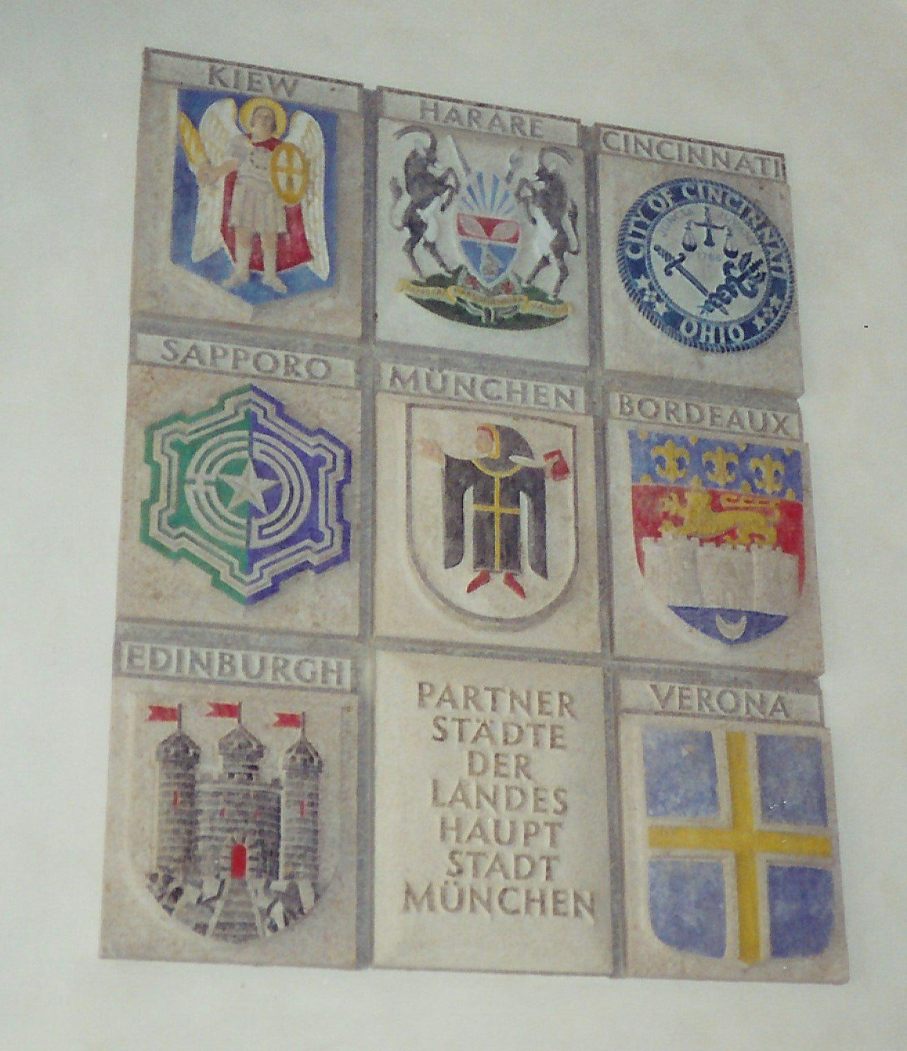 Photo of Sister City plaques in Munich's Neues Rathaus (in the main entry corridor from the Marienplatz)